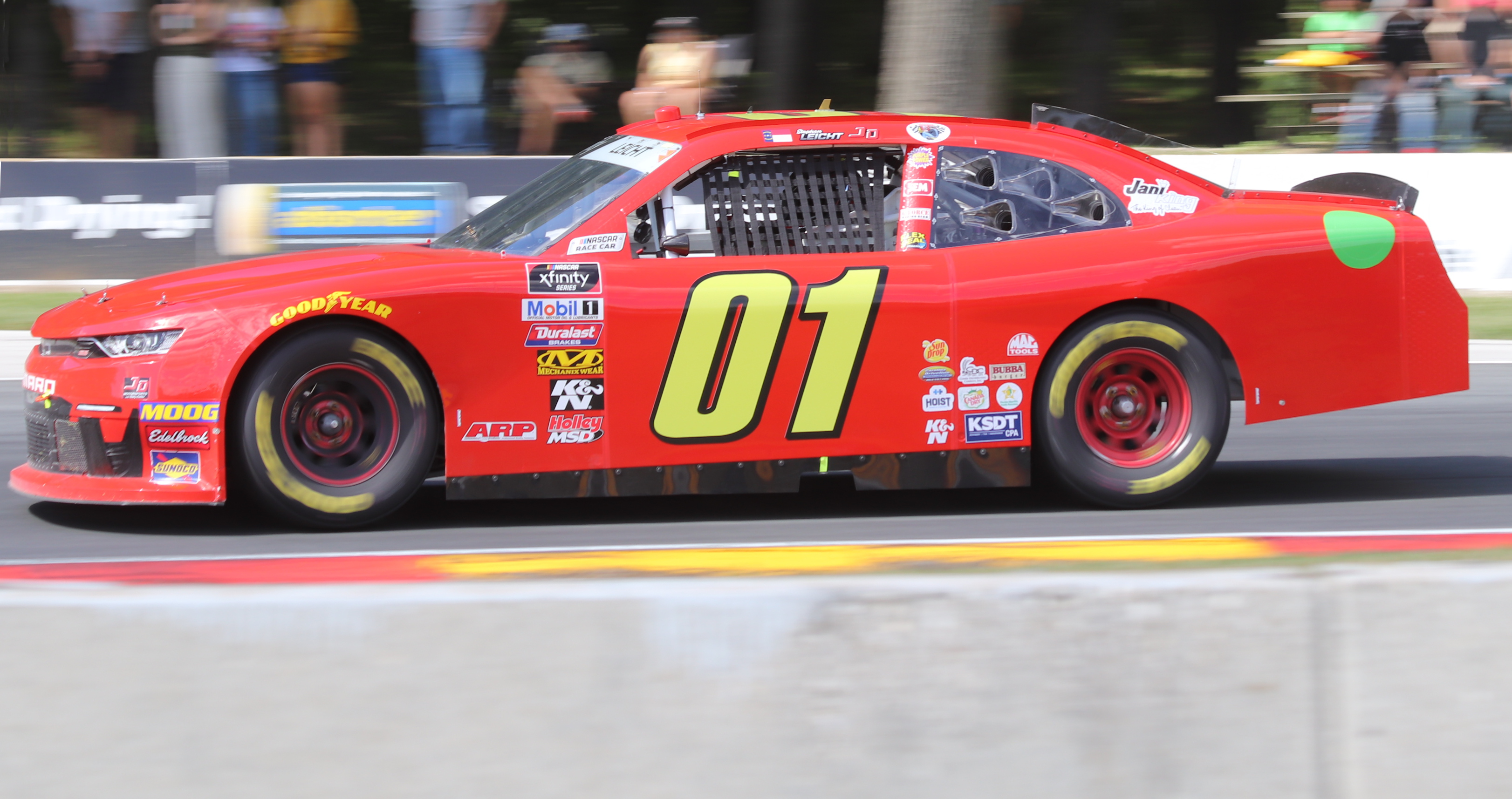 The #01 Chevrolet Camaro of Stephen Leicht at the NASCAR CTECH 180.